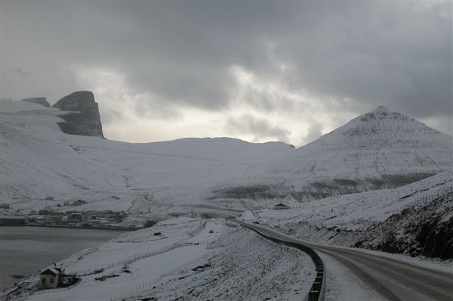 Lopra, Suðuroy, Faroe Islands.